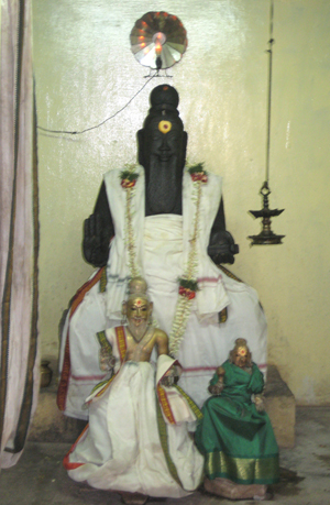 Thiruvalluvar